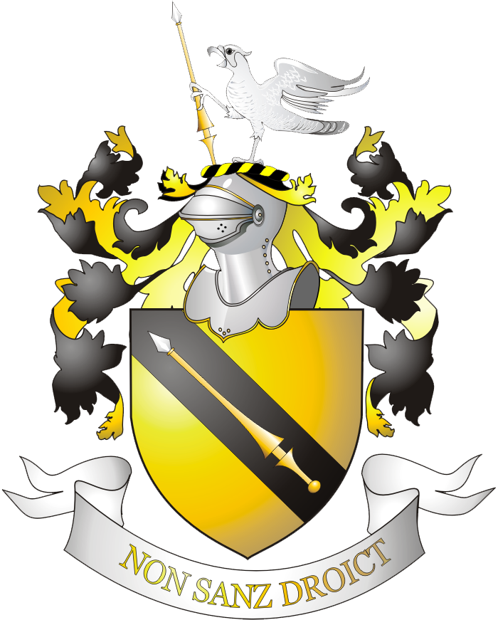 Coat of arms of William Shakespeare